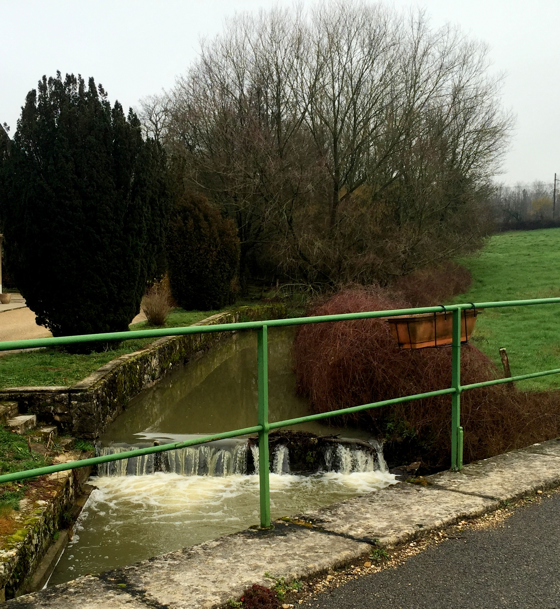 This photograph was taken with an iPhone 6